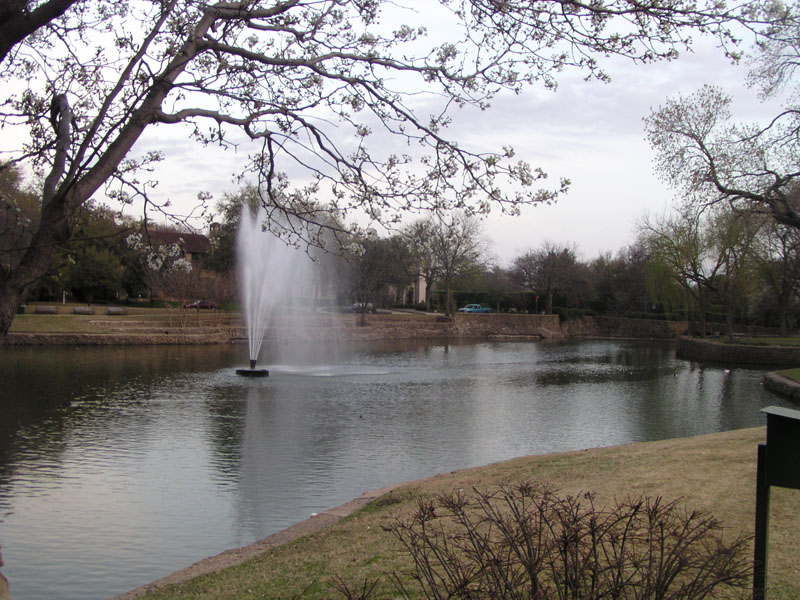 A park in University Park, Texas (USA)